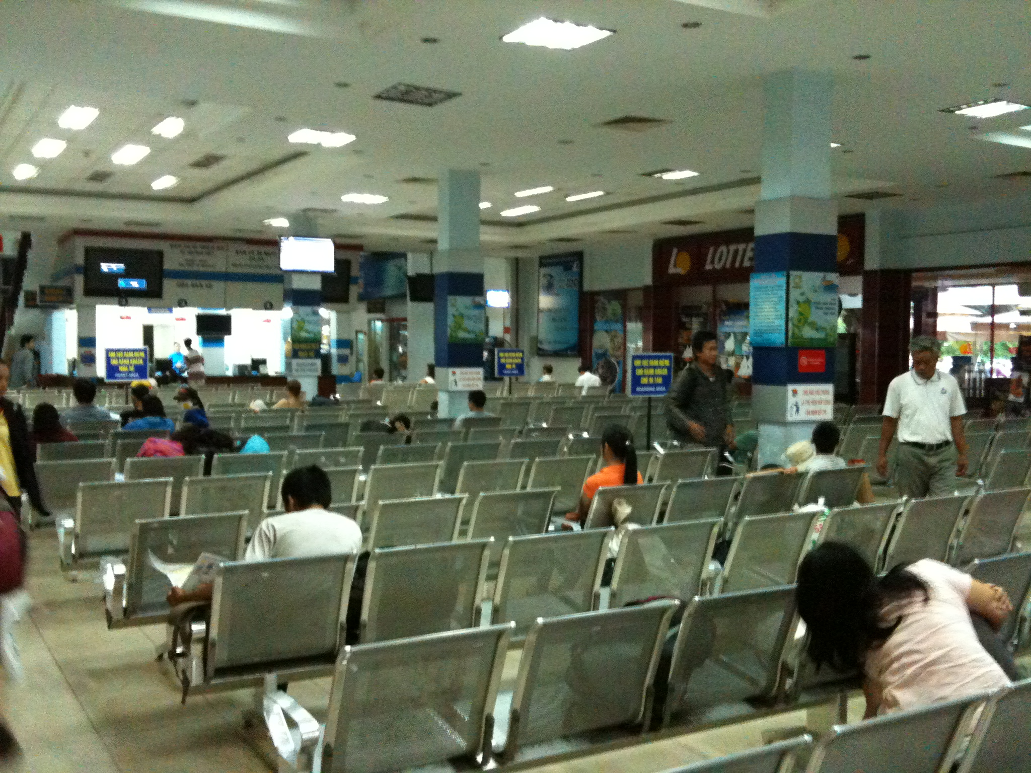 Waiting area inside Saigon Railway Station.